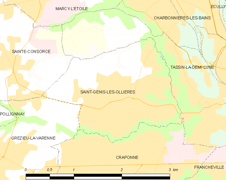 Map of French municipality